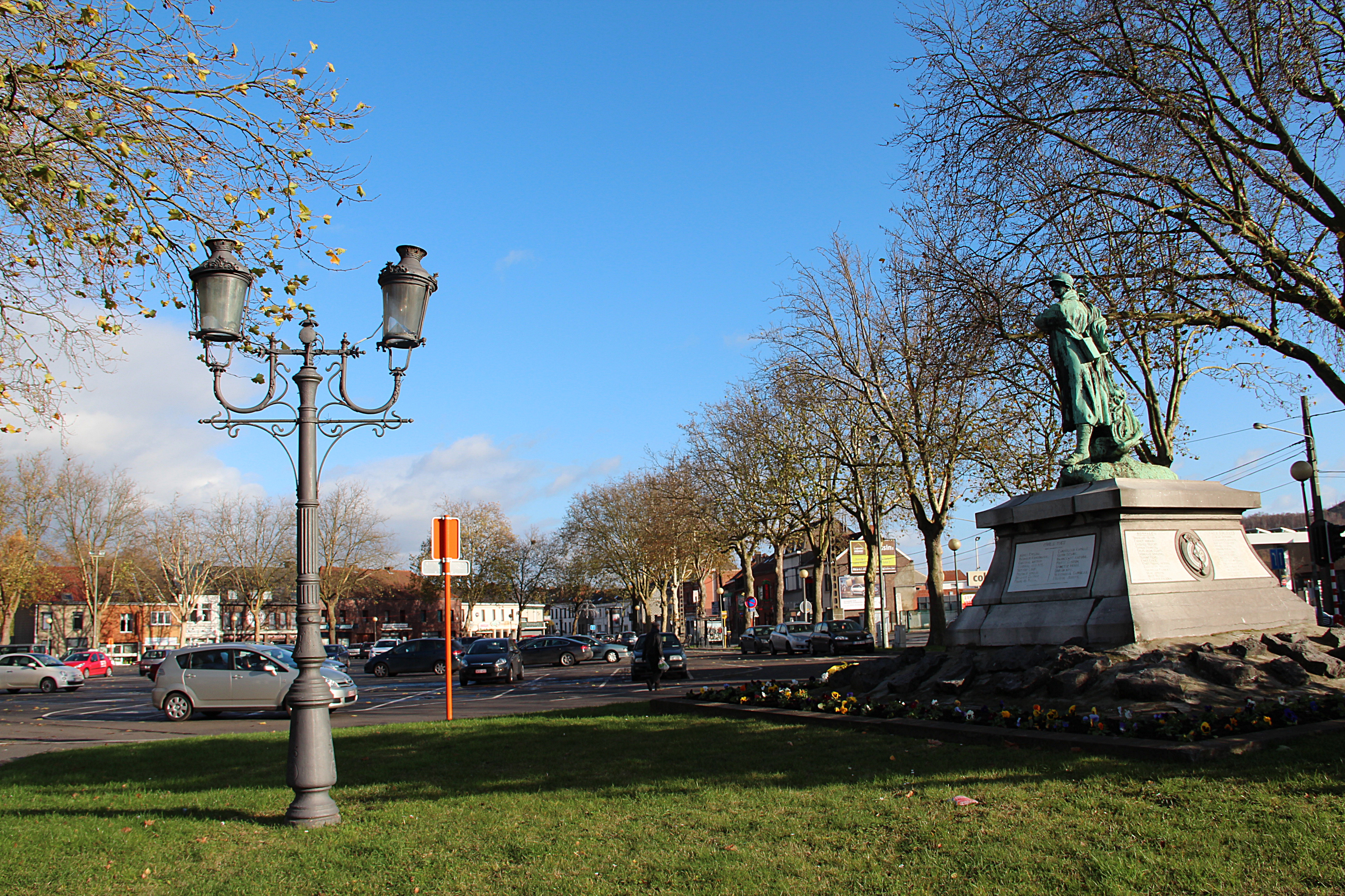 Cuesmes (Belgium), place de Cuesmes (Cuesmes Square) and the monument erected in memory of the victims of the wars of 1914-1918 and 1940-1945.